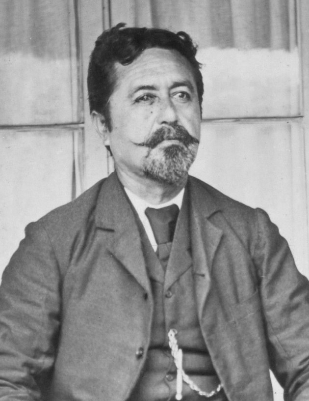 Portrait photograph of Pa Maretu Ariki circa 1896